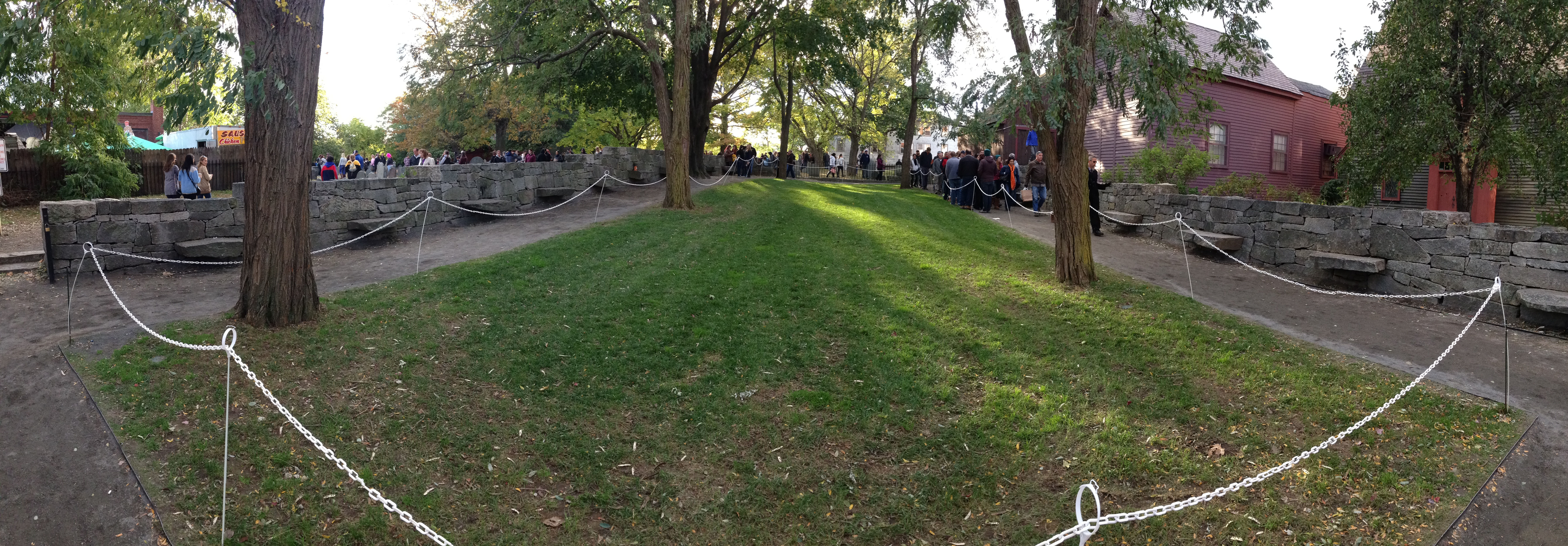 location of Salem witch hangings